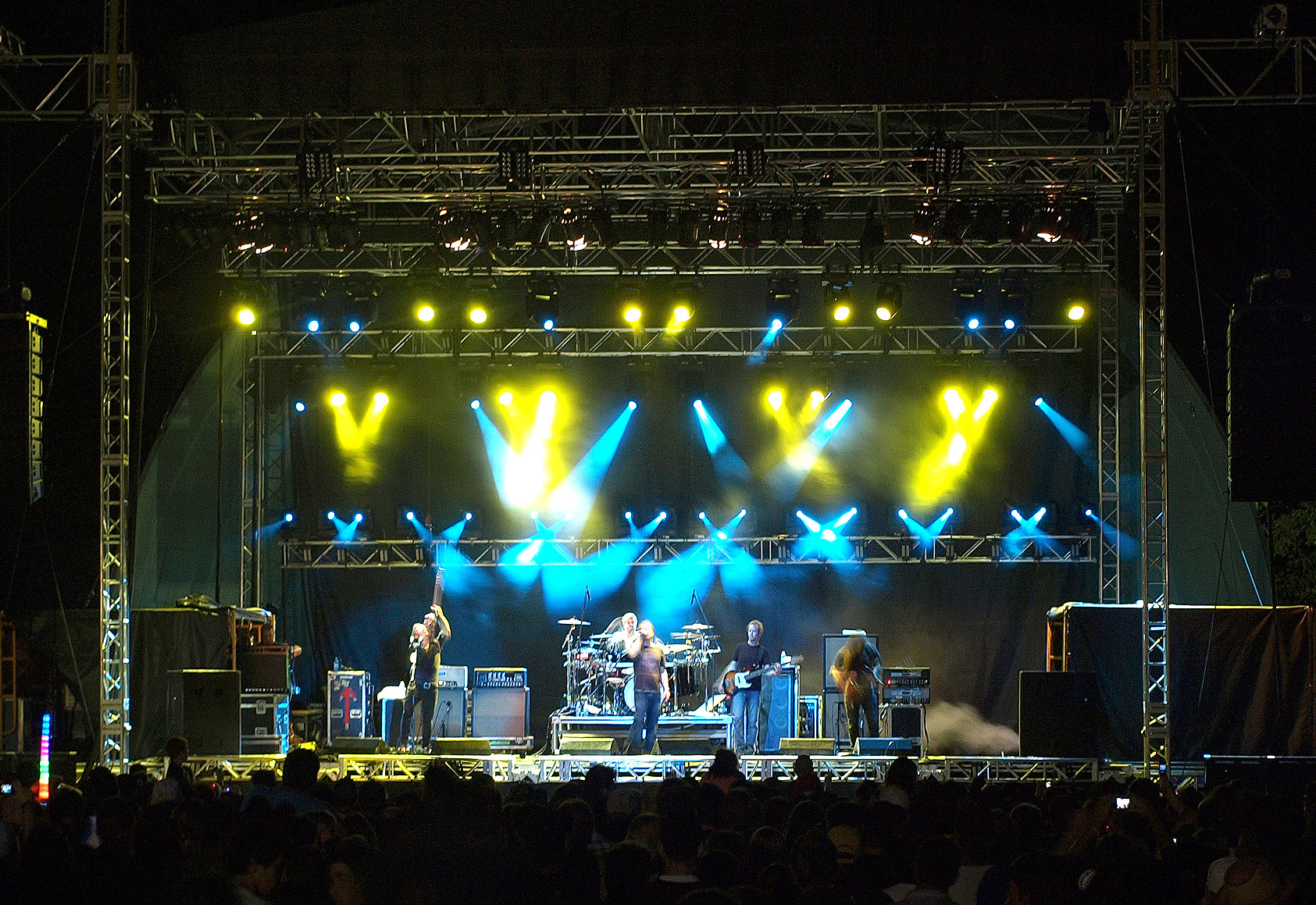 Canadian rock band Finger 11 performs on the mainstage at the 2009 Festival of Friends in Hamilton, ON, Canada.